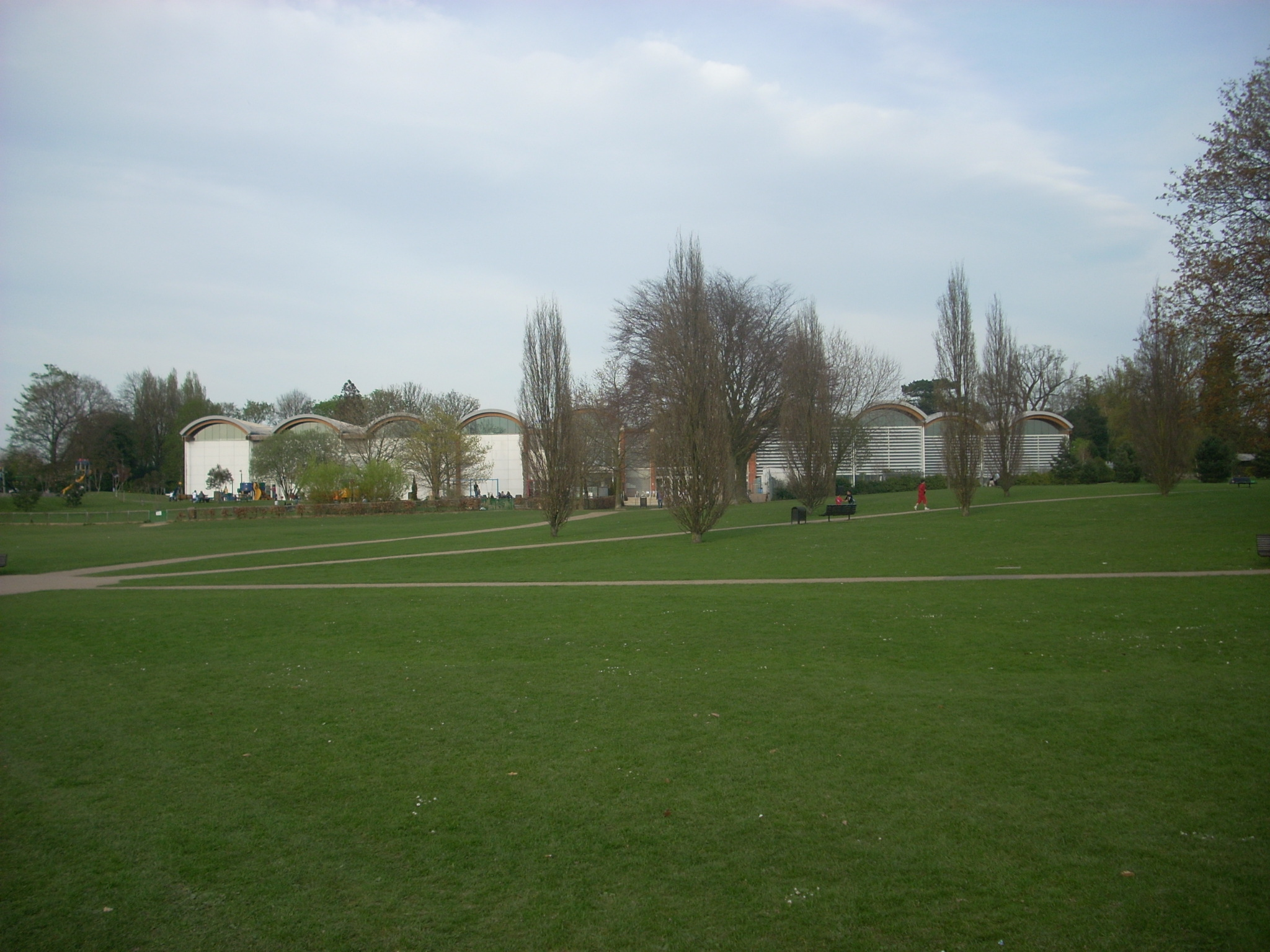 Horsham pavillions in the park